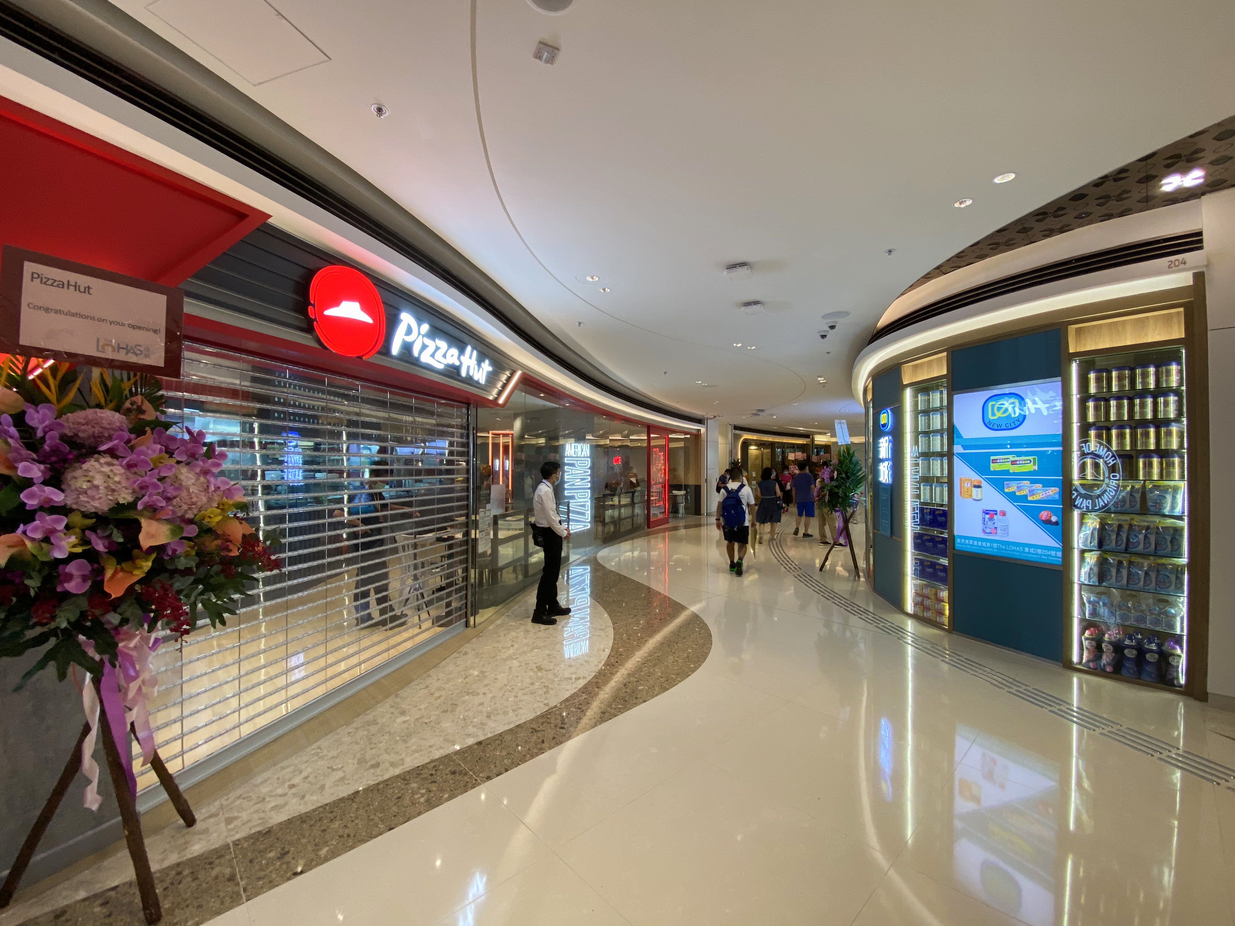 THE LOHAS Drop Level 2 shops